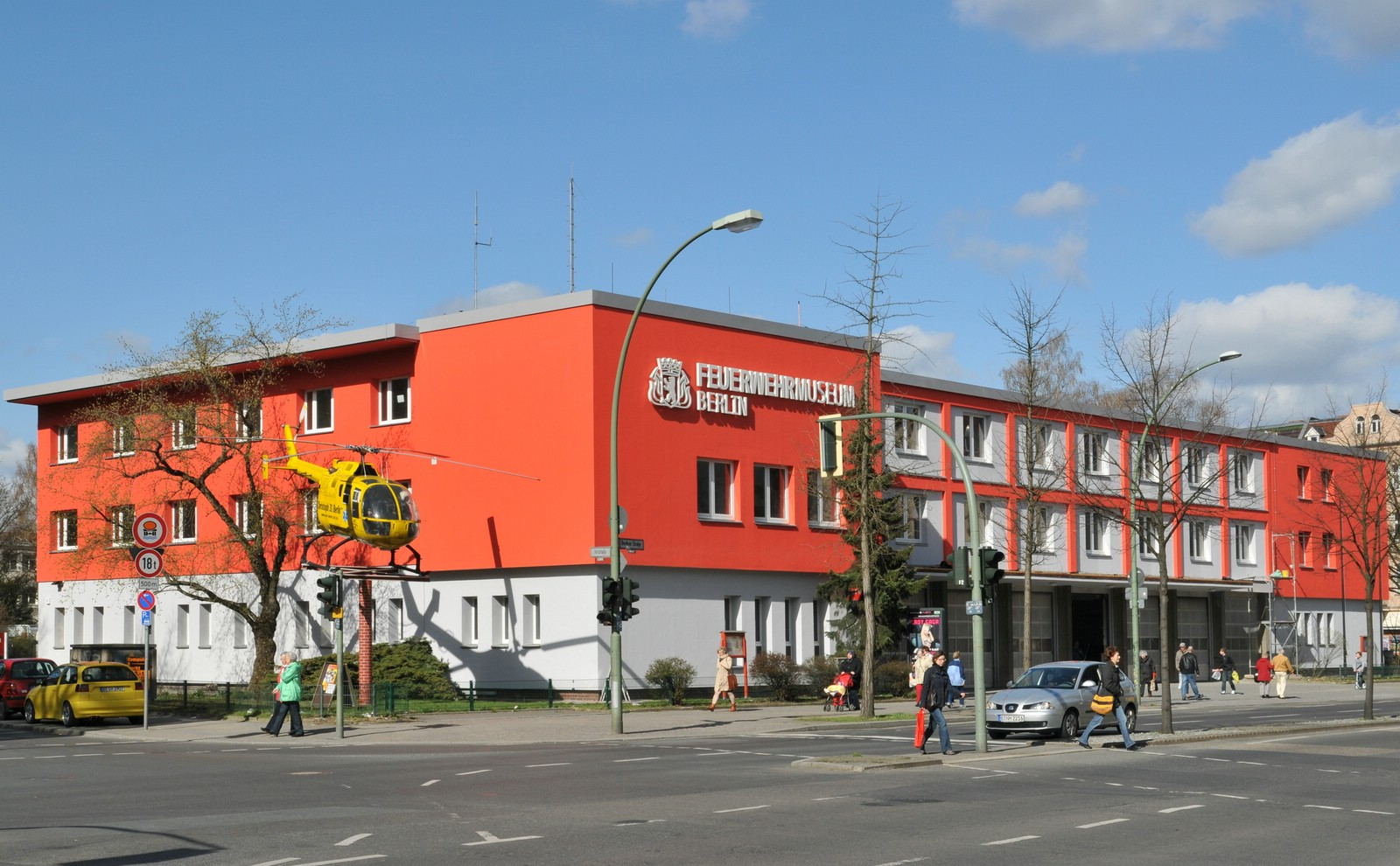 Berlin, Fire department museum